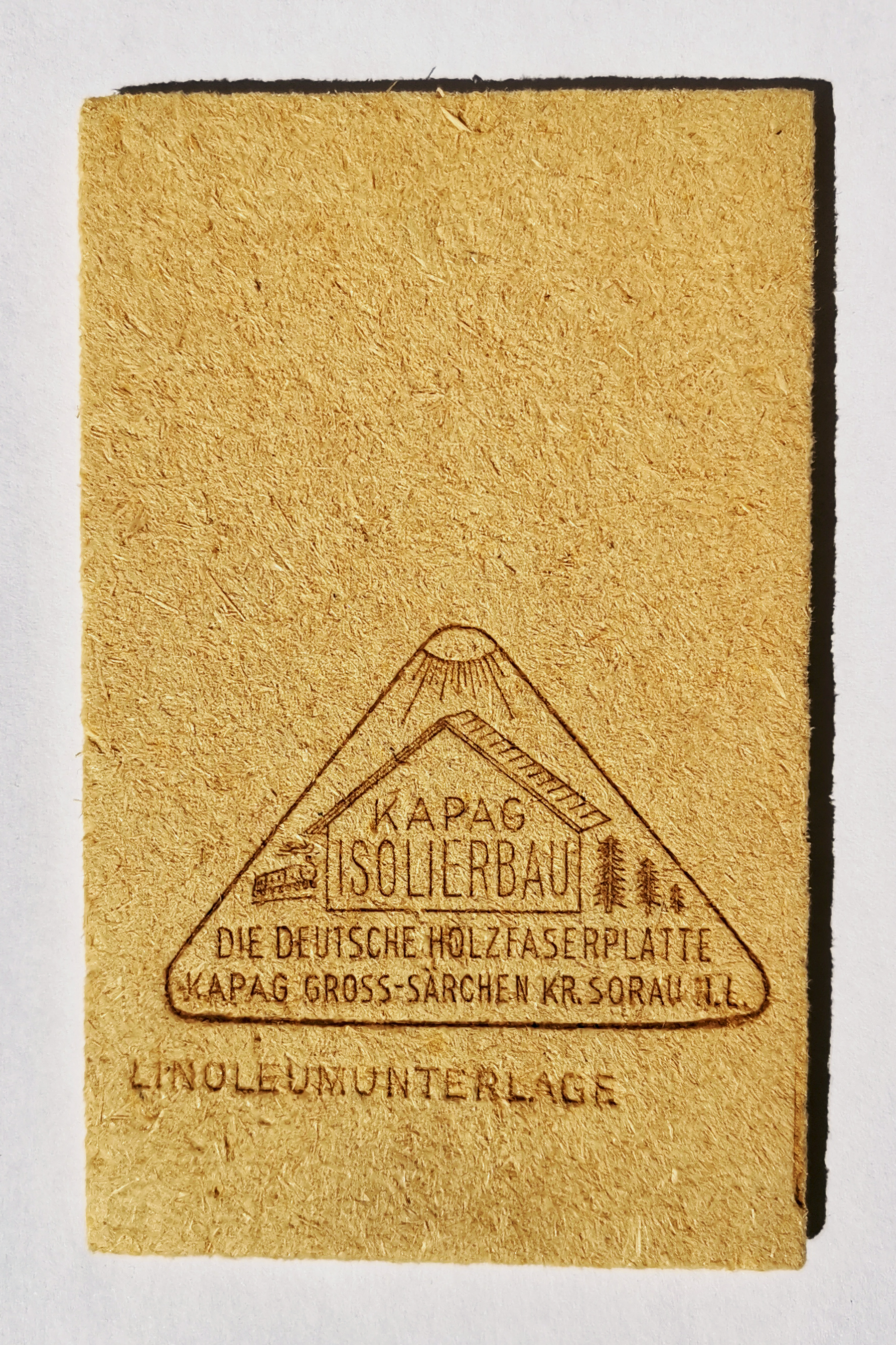 Sample of KAPAG Hartfaserplatte 1933/36 (German fibre board from KAPAG Groß Särchen)